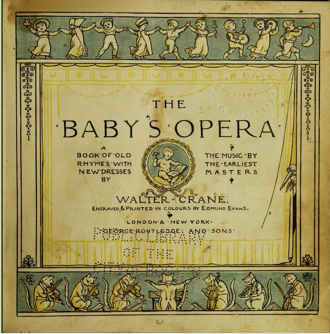 Children's Nursery Rhymes book with Sheet Music